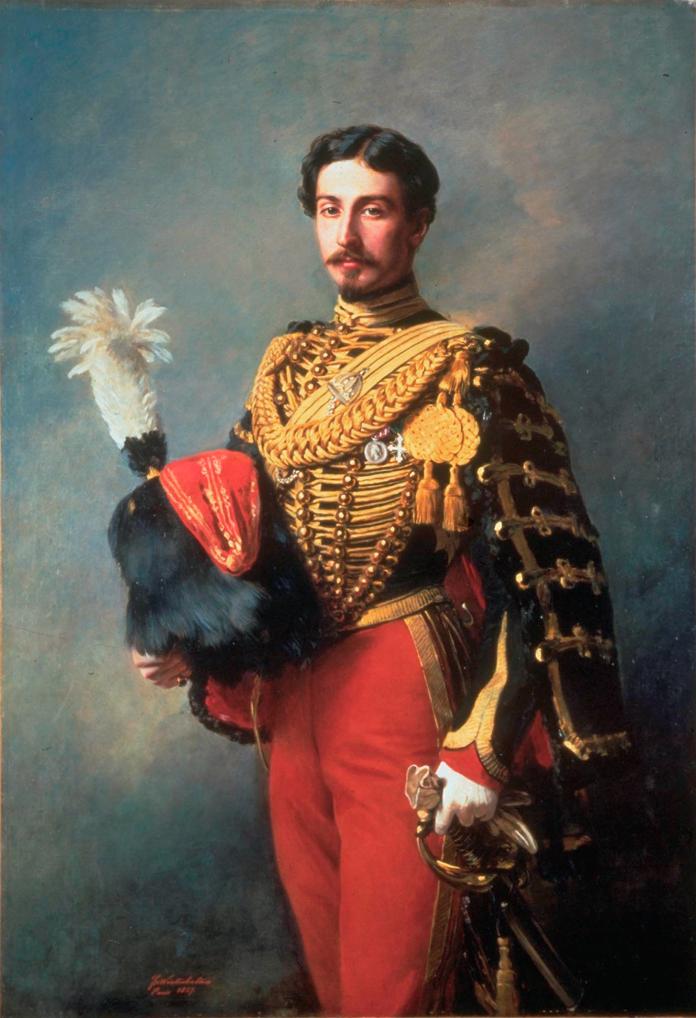 Édouard André oil on canvas signed b.l.: Fr Winterhalter / Paris 1857